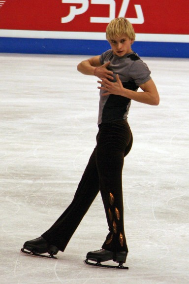 Andrei Lutai at the the 2009 World Championships.